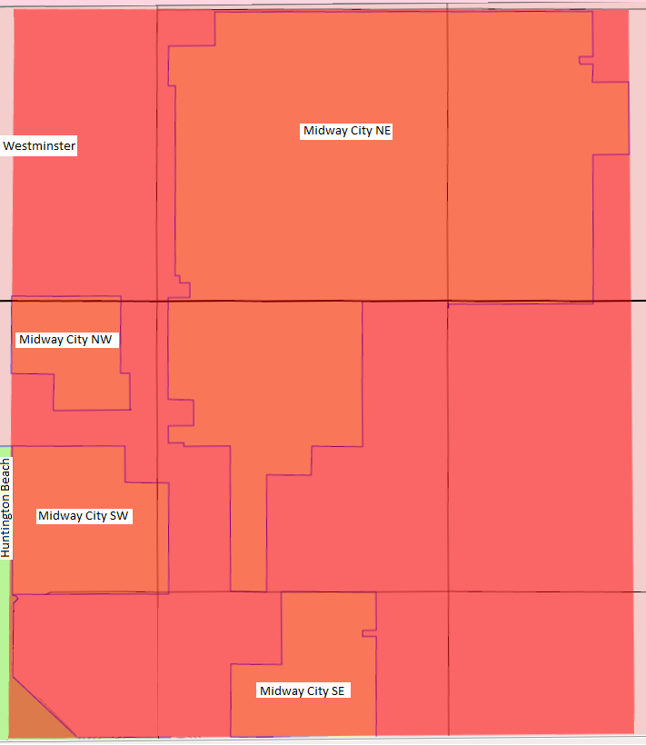 Image of the 832 acre rectangular boundary containing Midway City, California, which occupies about 391 acres (47%) within the 832 acre rectangular boundary. The four islands approximately measure: the northeast island 296.6 acres, the southwest island 40.5 acres, the southeast island 33 acres, and northwest island 21.1 acres.